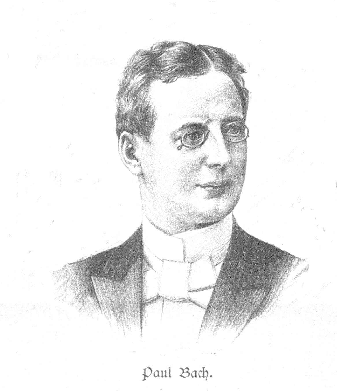 Portrait of Paul Bach (1855-1936), German actor. Cropped from a gallery of actors of Raimundtheater in Wien (Vienna, Austria).